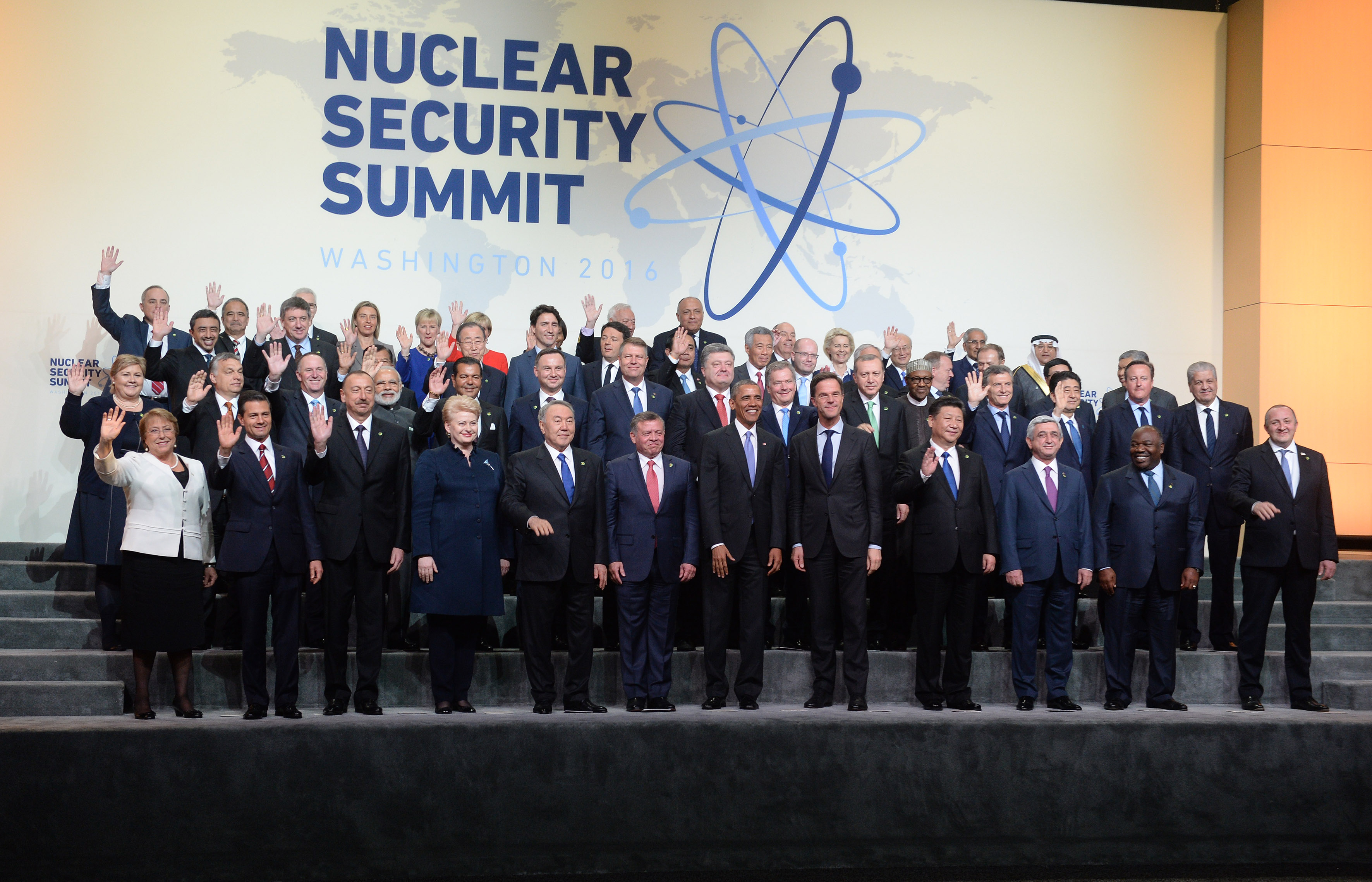 Official photography of the 2016 Nuclear Security Summit.